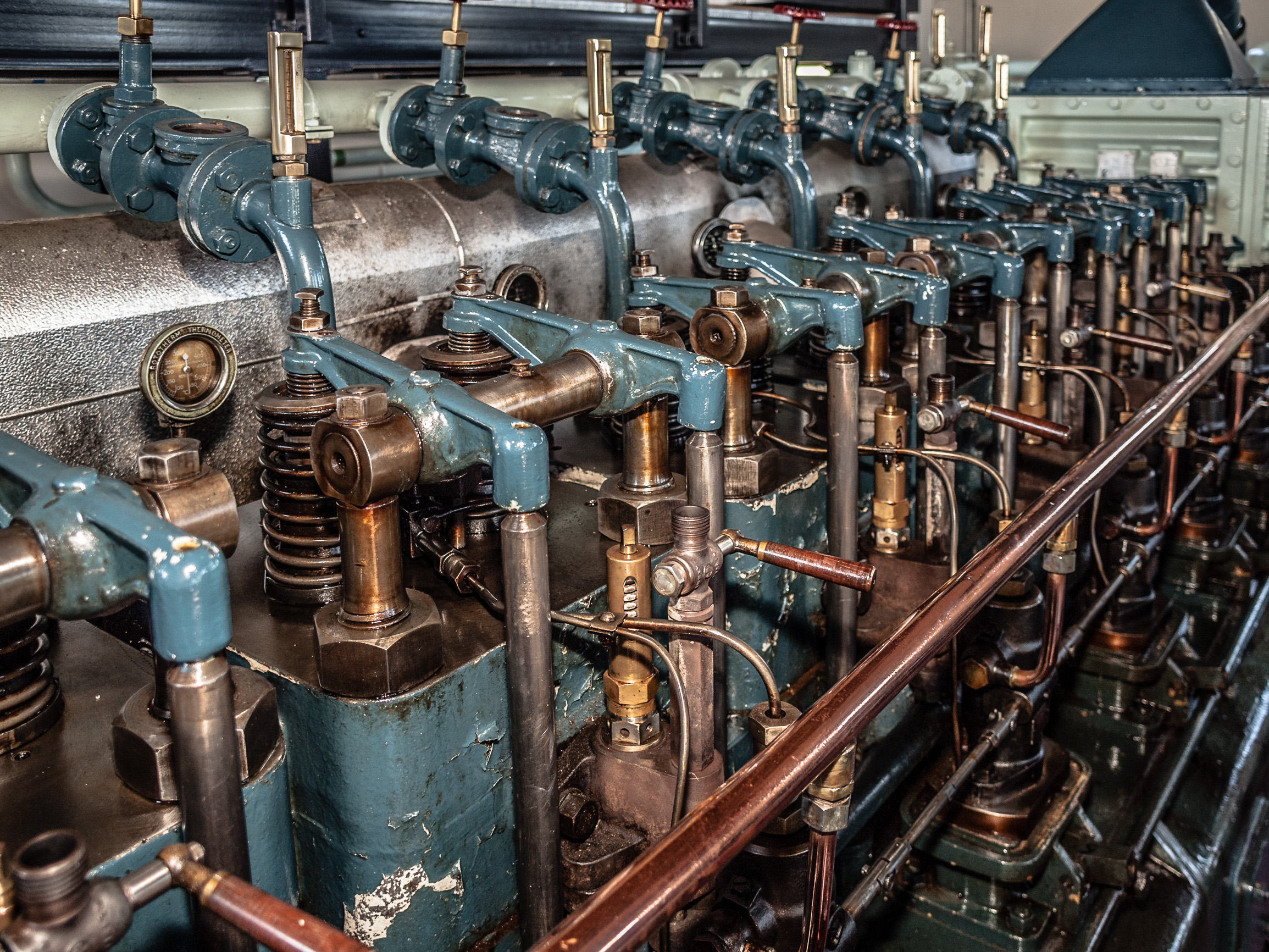 Valve train of an old stationary Werkspoor diesel engine.